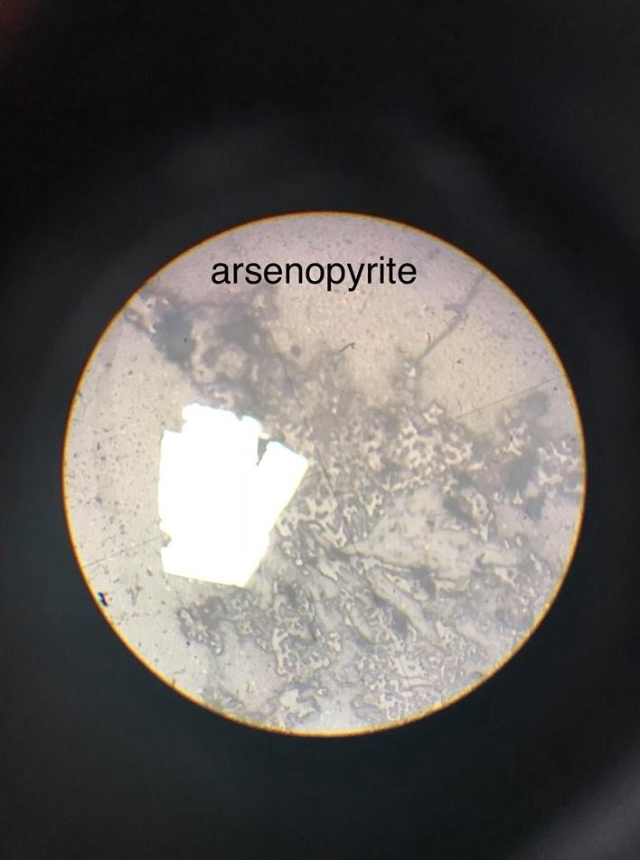 Arsenopyrite by petrographic microscope